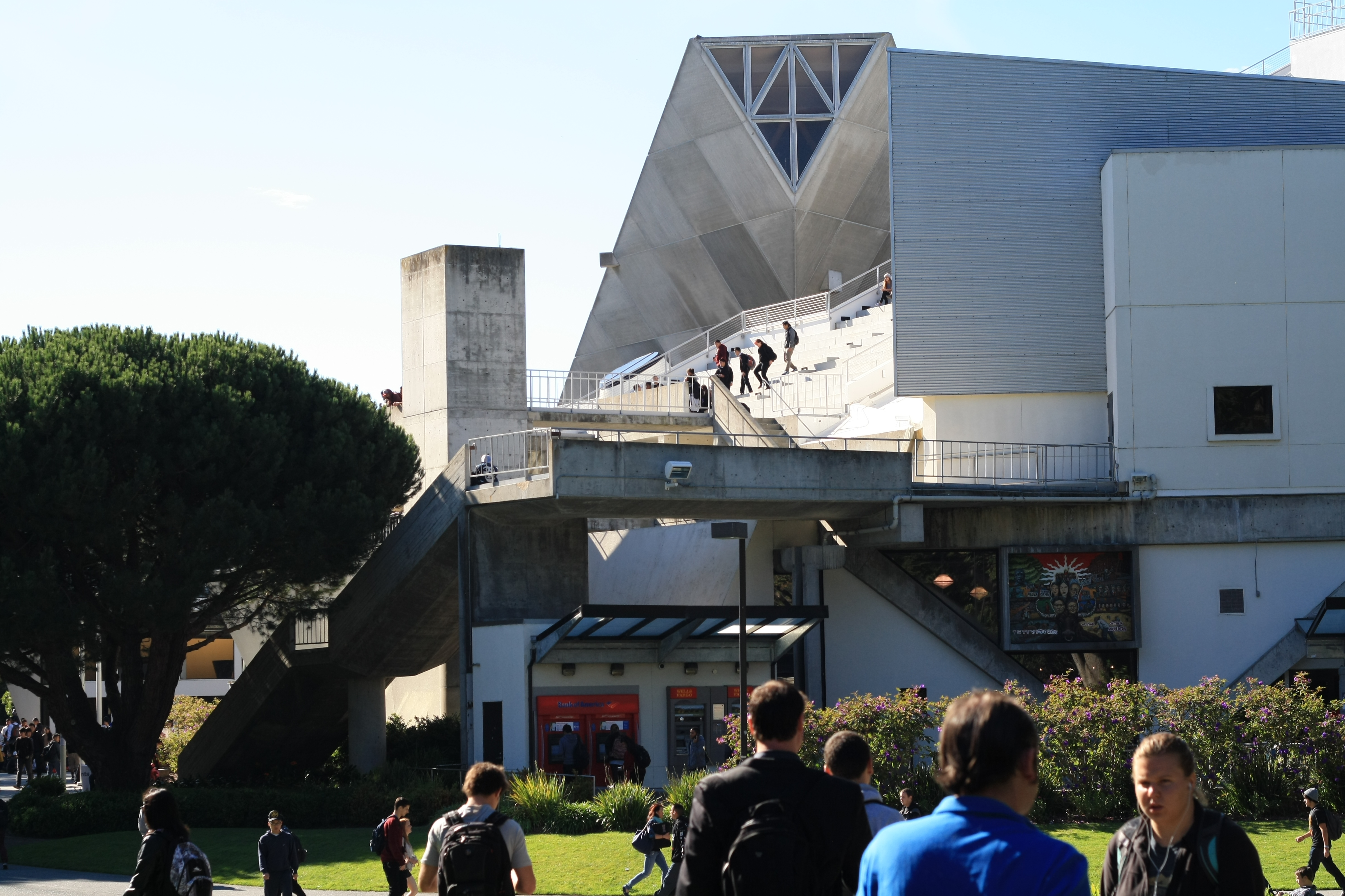 San Francisco State University - Cesar Chavéz Student Center